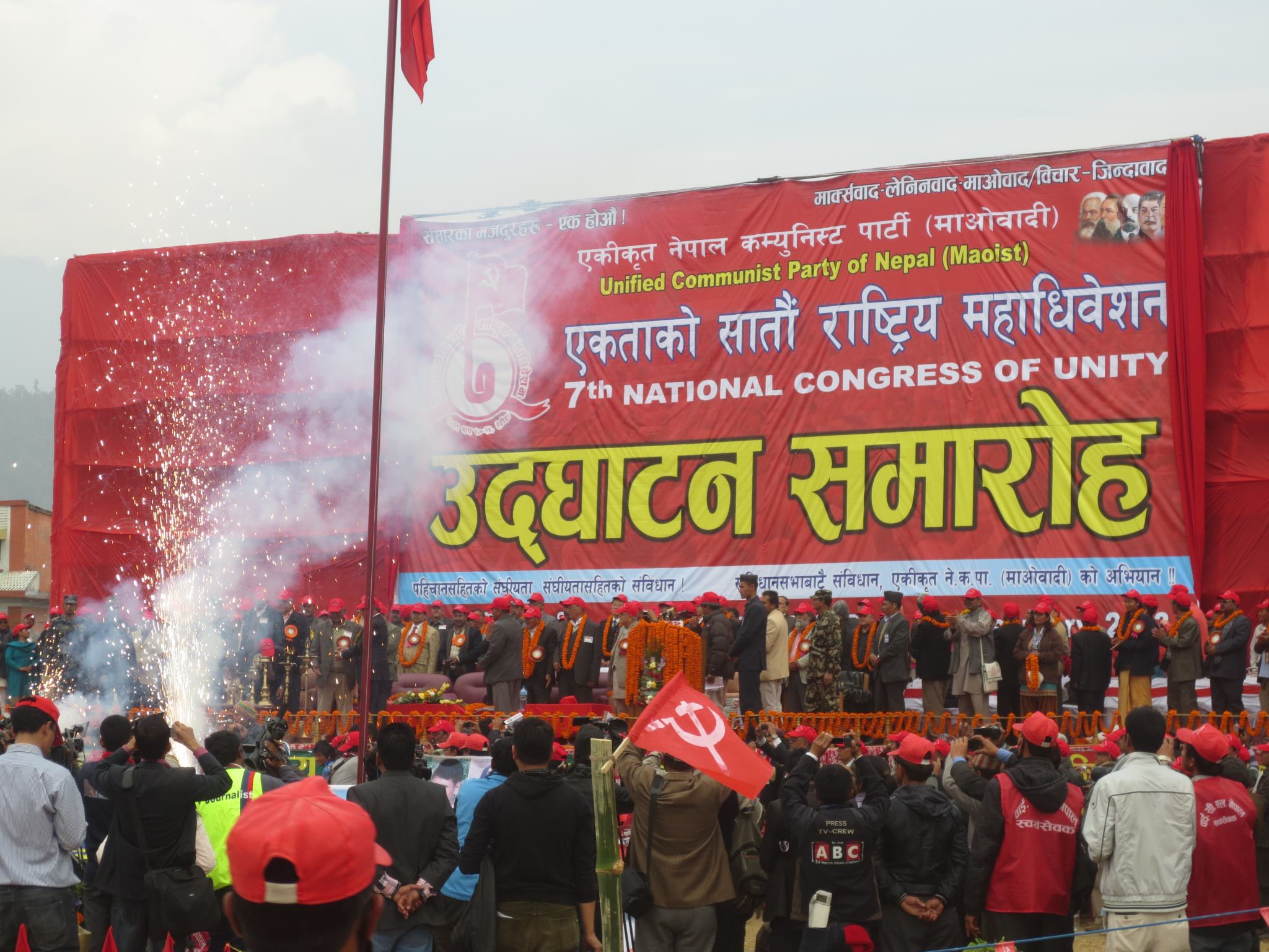 The Convention held in Hetauda, Makawanpur District.